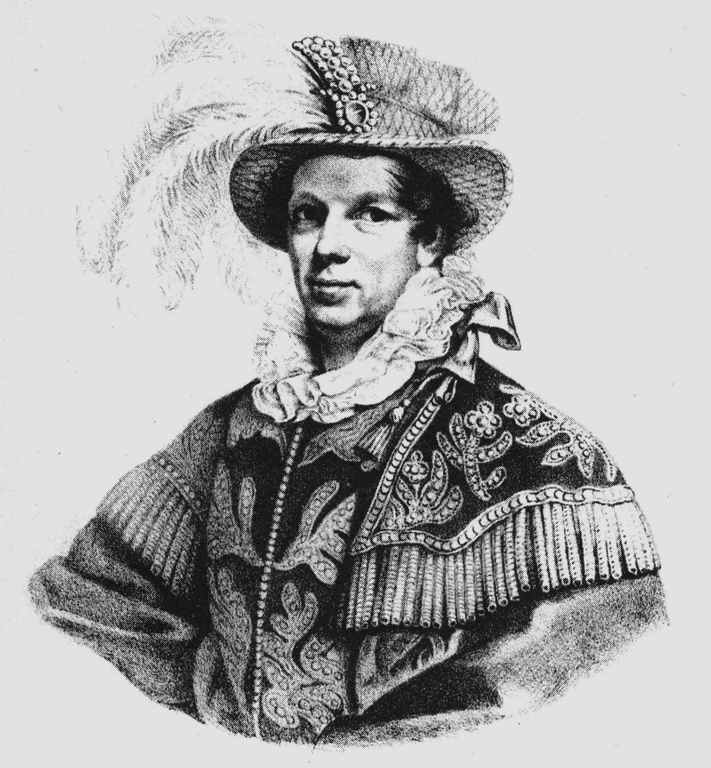 Joseph Kainz as Faust in Louis Spohr's eponymous opera (after 1816)